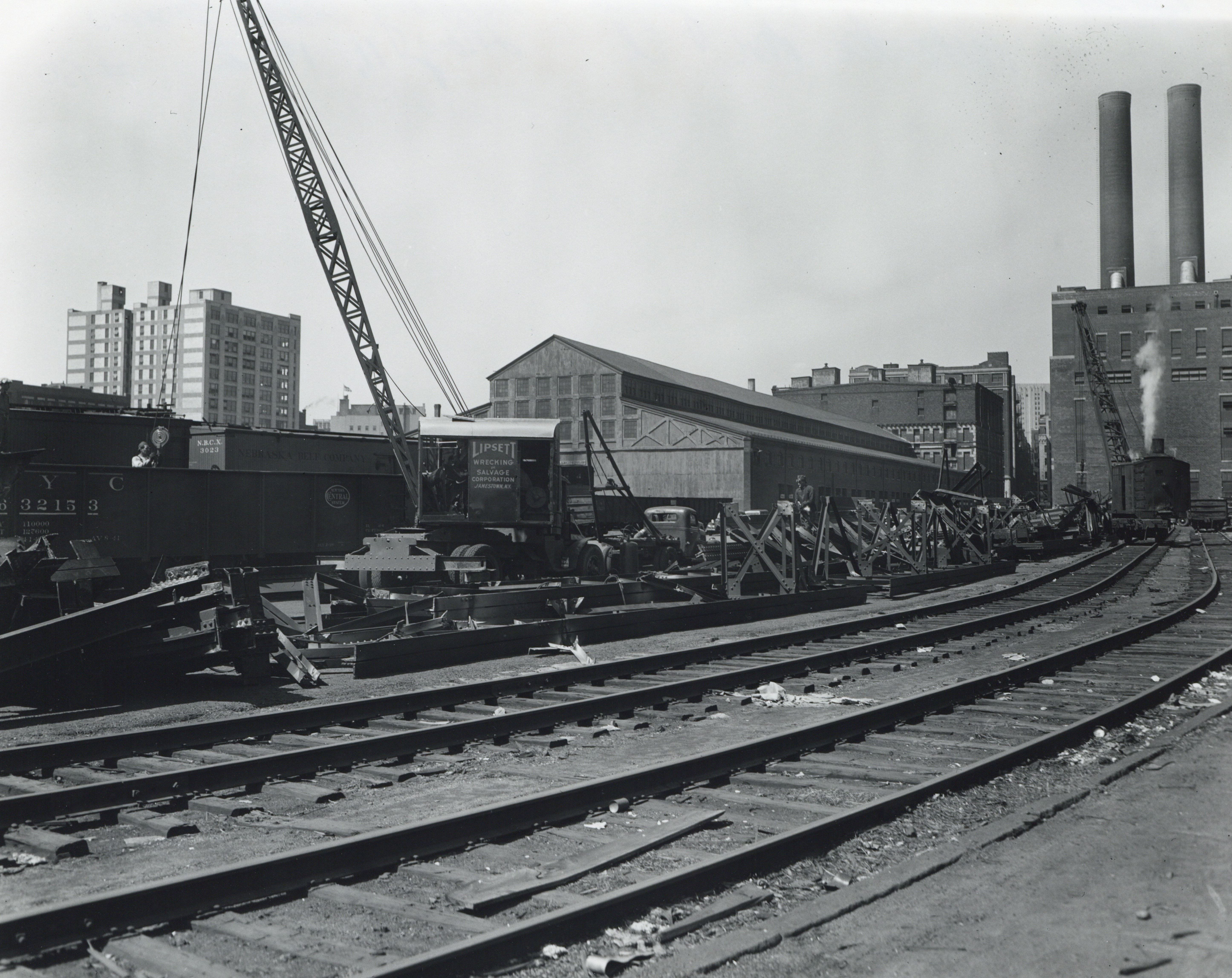 Title: Boston and Albany Railroad Yards - loading steel from Atlantic Ave. Elevated Creator: Boston Transit Department Date: 1942 May 11 Source: Public Works Department photograph collection, 5000.009 File name: 5000_009_0180 Rights: Public domain Citation: Public Works Department photograph collection, Collection 5000.009, City of Boston Archives, Boston